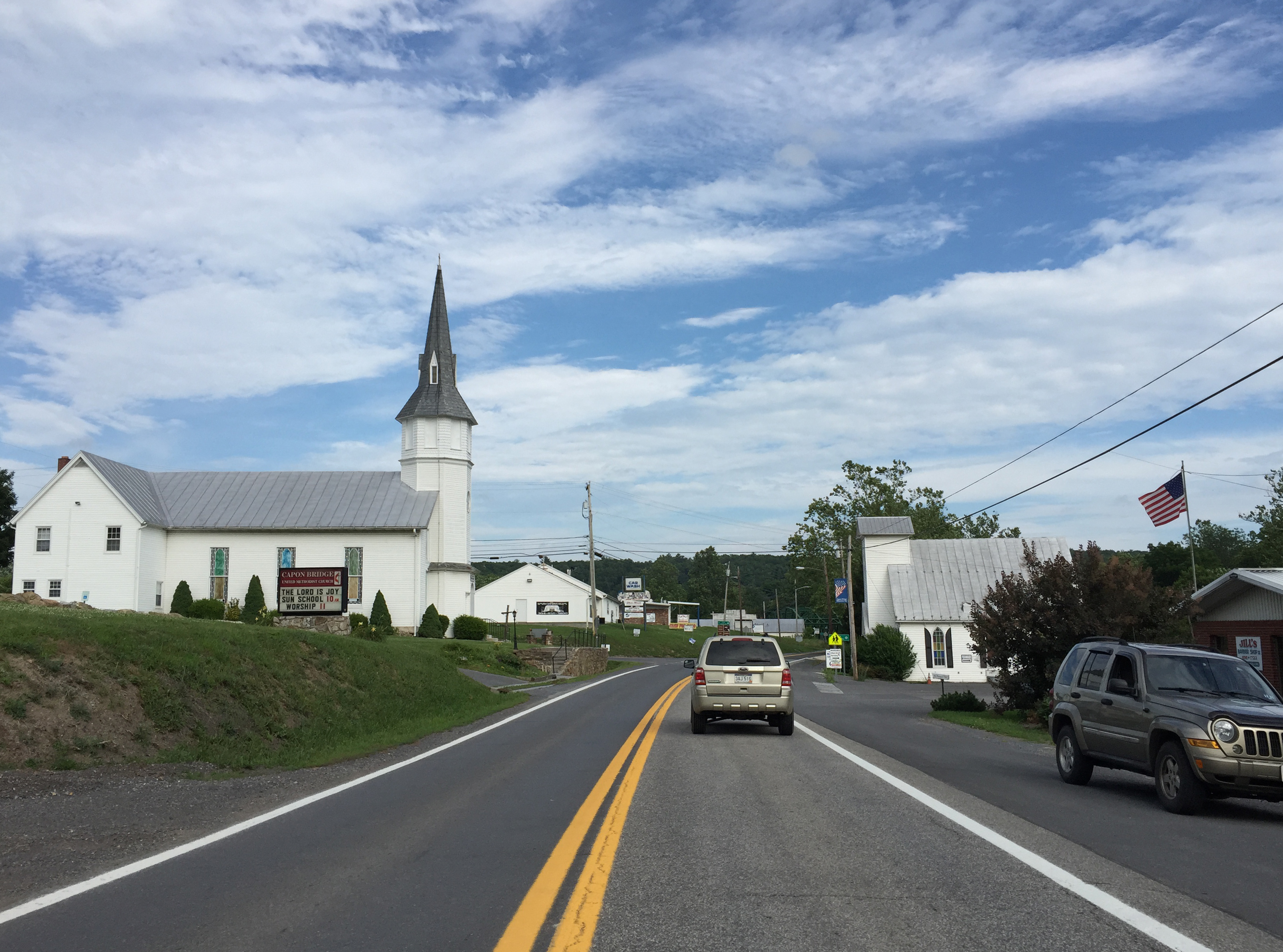 View east along U.S. Route 50 (Northwestern Pike) between Tannery Road and Cold Stream Road in Capon Bridge, Hampshire County, West Virginia